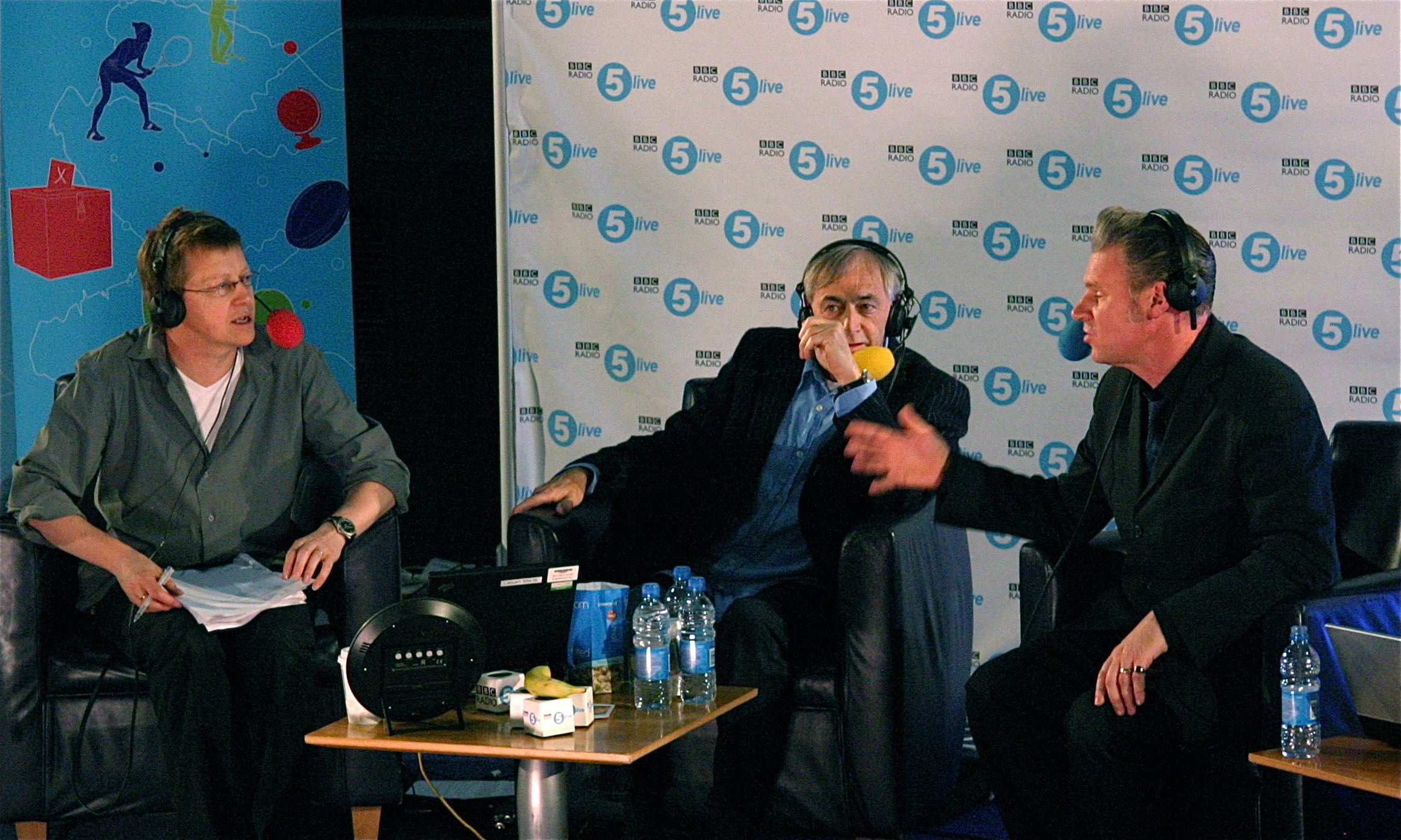 Scottish filmmaker Bill Forsyth being interviewed on Kermode and Mayo's Film Review radio program on BBC Radio 5 Live, 19 June 2009